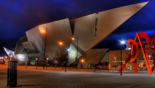 Archipreneuer (Adam Crain's) Photo of the Denver Art Museum by Daniel Libeskind.